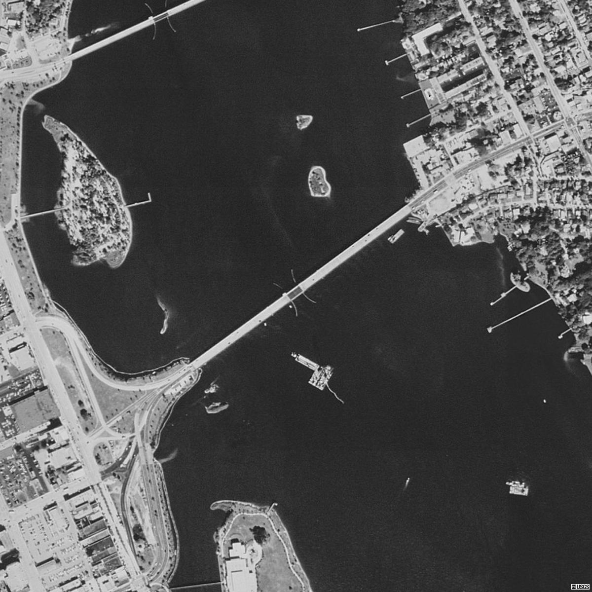 Aerial image of the Broadway Bridge across the Halifax River and Intercoastal Waterway, Daytona Beach, Volusia County, Florida, United States.